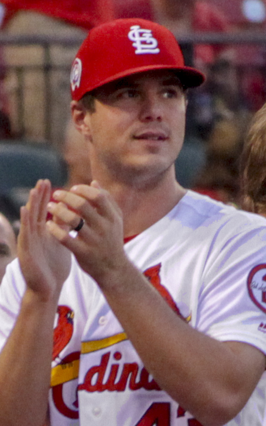 Dakota Hudson of the St.Louis Cardinals.